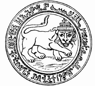 Official seal of Emperor Tewodros II of Ethiopia. According to Hormuzd Rassam, in whose book Narrative of the British Mission to Theodore, King of Abyssinia (London, 1869) this seal also appears, the Amharic text translates as "Negus Nagaset, Teodros, of Ethiopia" while the Arabic text translates as "The victorious King, Taodros, King of Abyssinia."